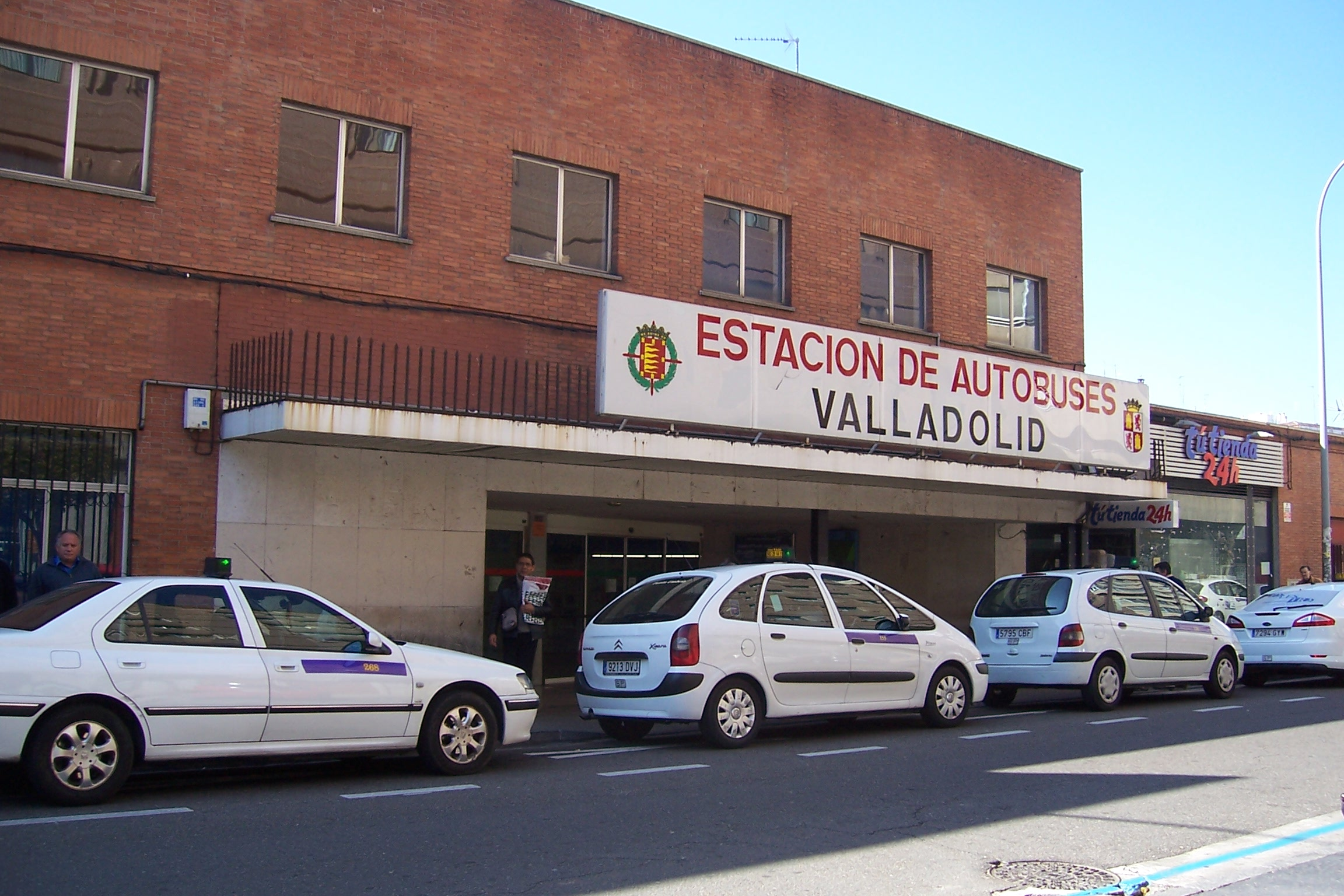 Bus station in the city of Valladolid (Spain).